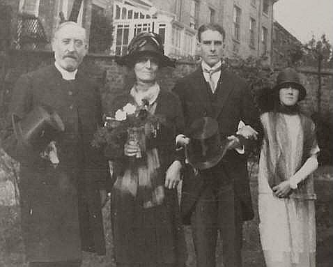 John Tiarks (1903-1974), provost of Bradford Cathedral 1944-1962, and Bishop of Chelmsford 1962-1971.